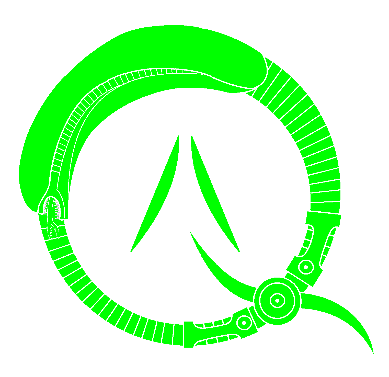 A colored drawing of an Alien design, based on the cover of the Alien Quadrilogy DVD set.